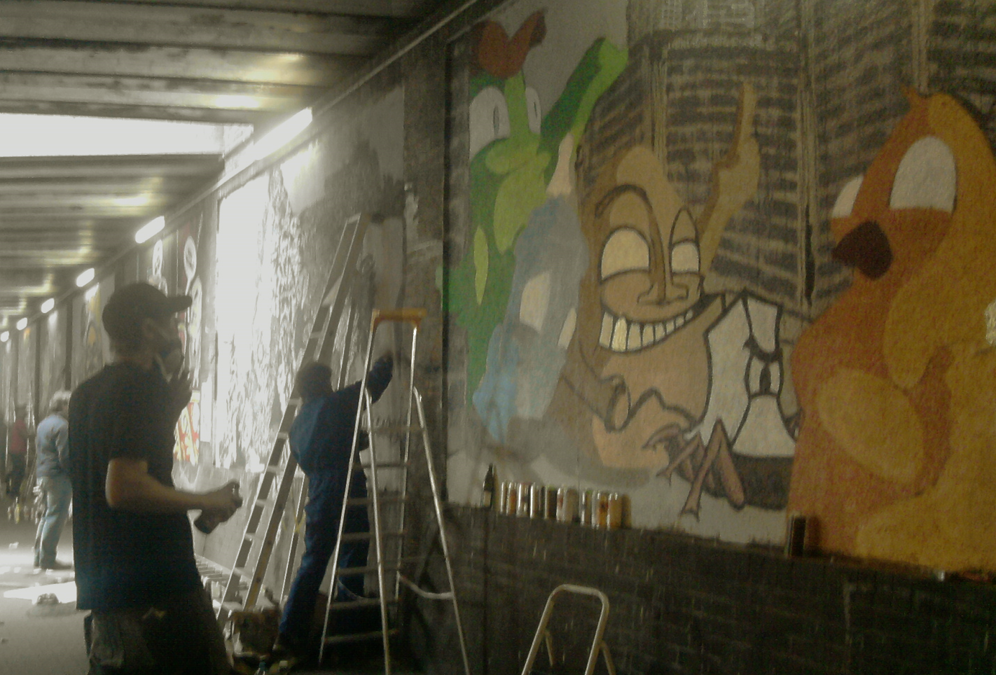 2011 redecoration of Düsseldorf’s railway bridge over Ellerstraße.